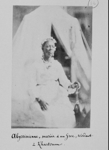 "Abyssinienne mariée à un Grec résident à Khartoum", photographed in 1882 by the French diplomat Louis Vossion.